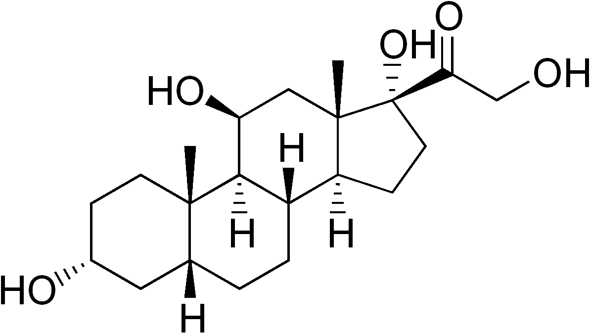 chemical structure of tetrahydrocortisol